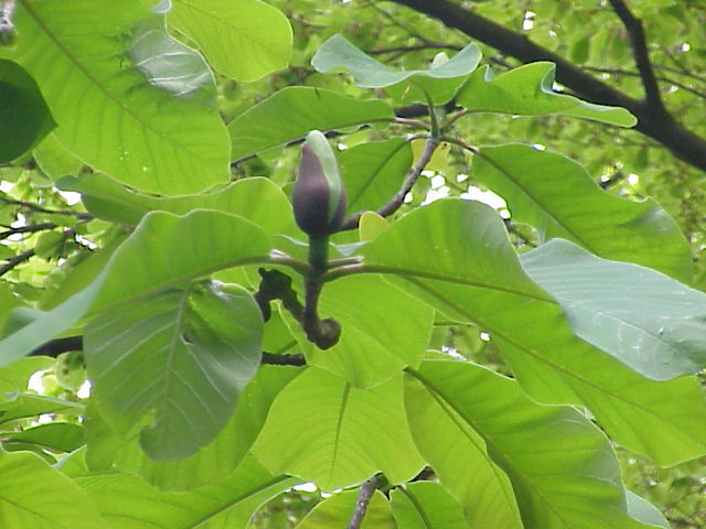 Species: Magnolia hypoleuca Family: Magnoliaceae Image No. 1